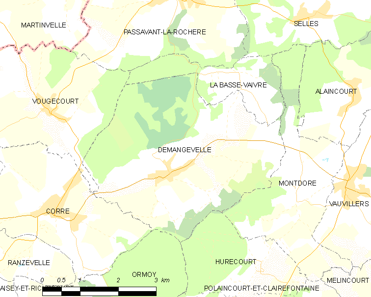 Map of French municipality